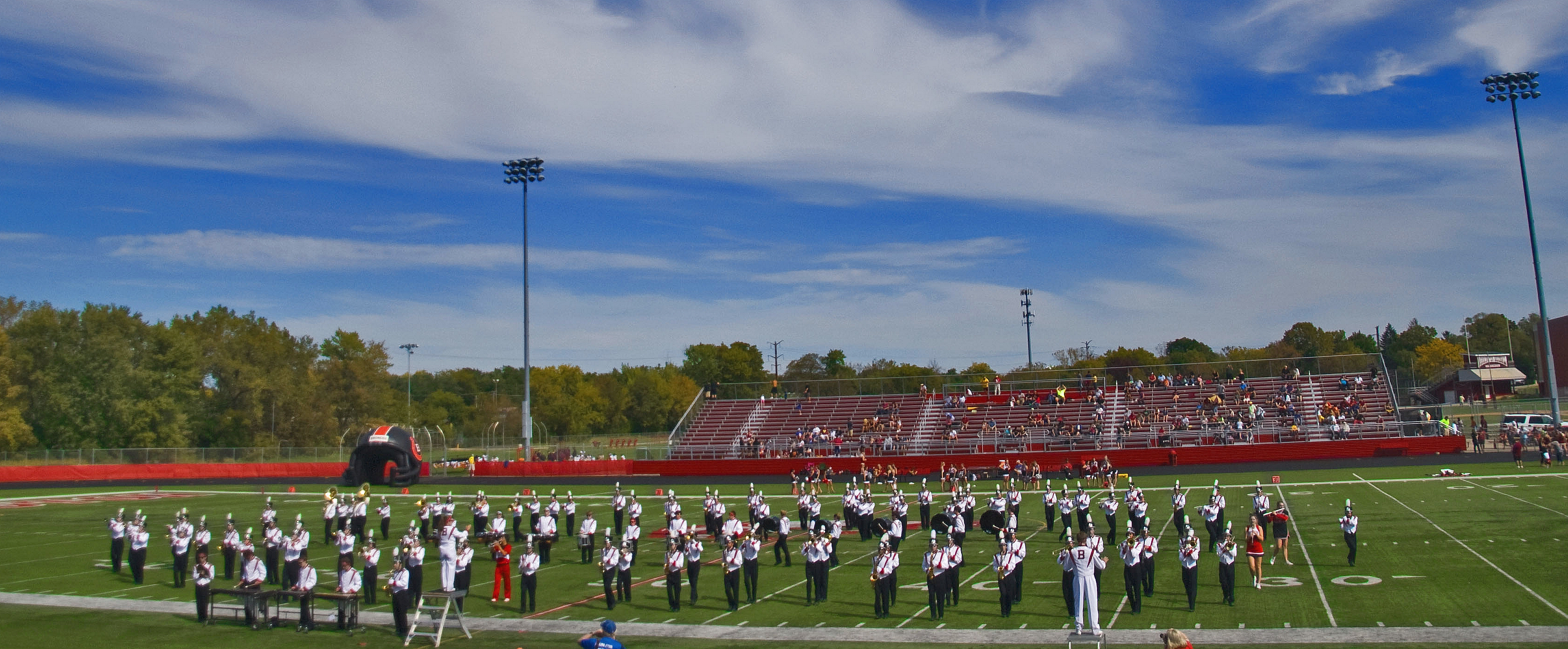 The Marching Band during half-time at the Barrington High School during homecoming football game.